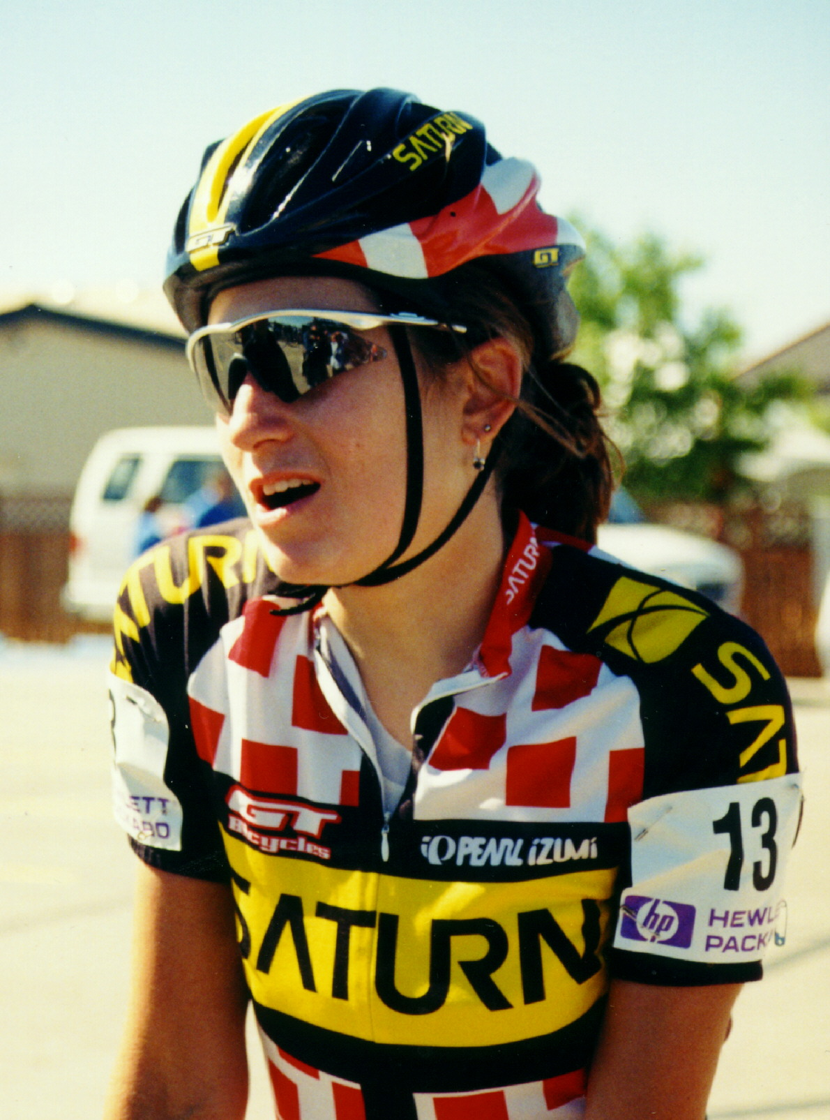 Dede Barry (nee Demet) speaks with the press just prior to the start of the Boise to Idaho City Road Race at the 1998 Women's Challenge.